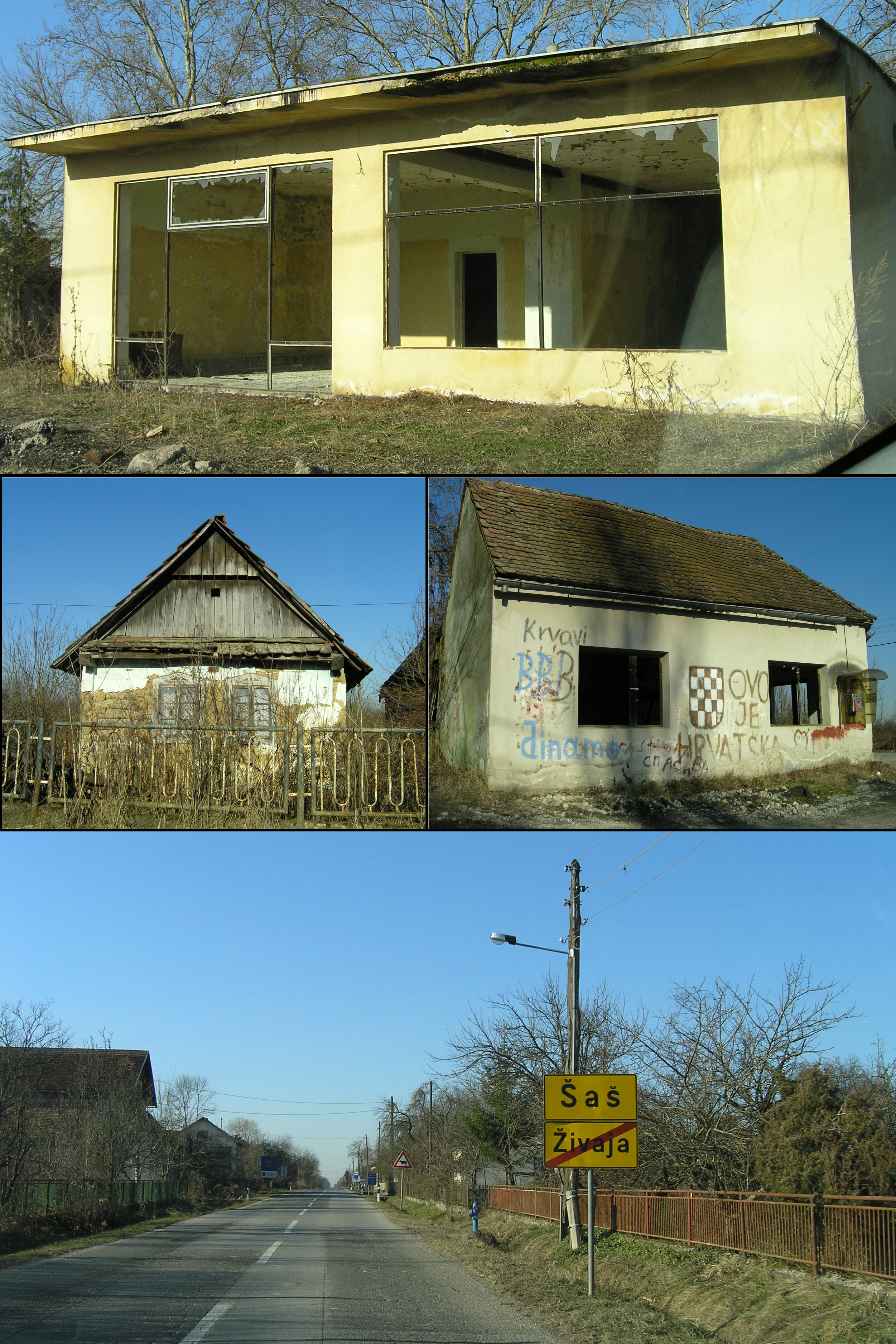 Abandoned and destroyed Serbian houses in village Šaš, near Hrvatska Dubica (Sisak-Moslavina county) in Croatia.